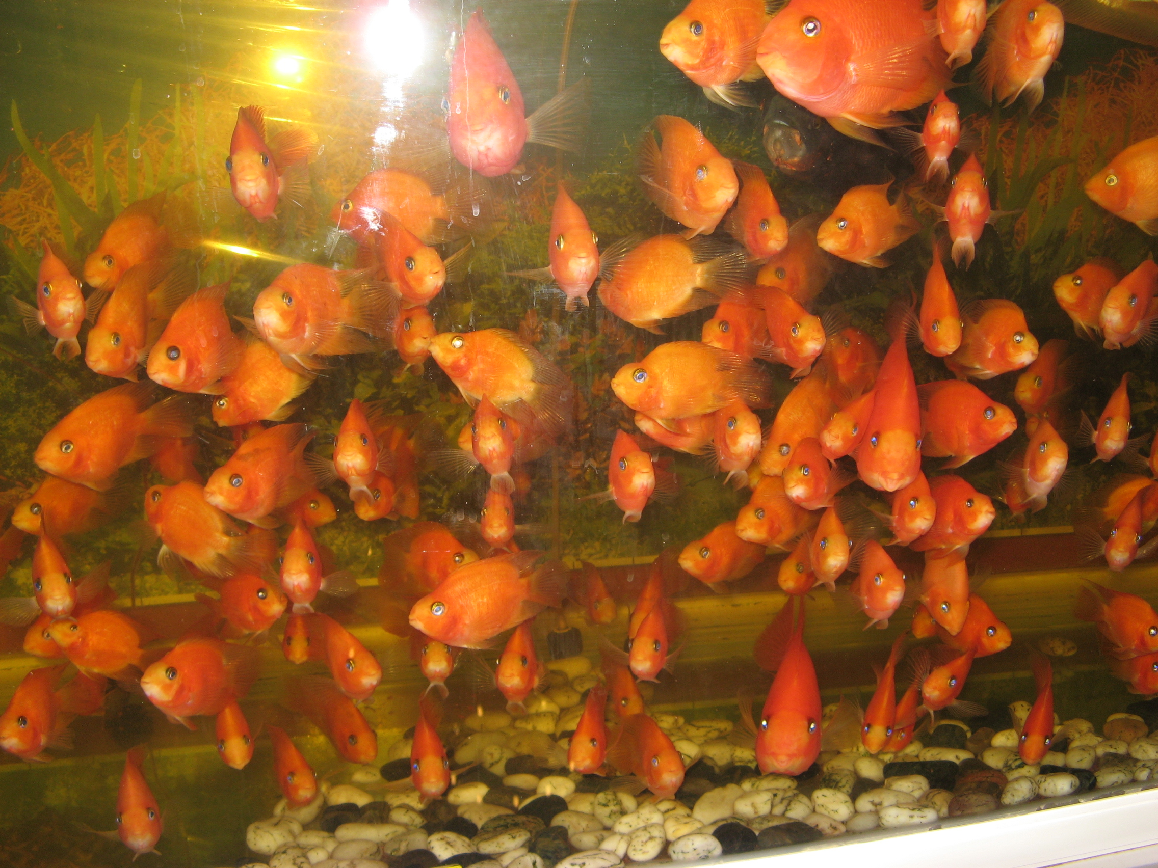 Blood parrot cichlids - Beijing, China